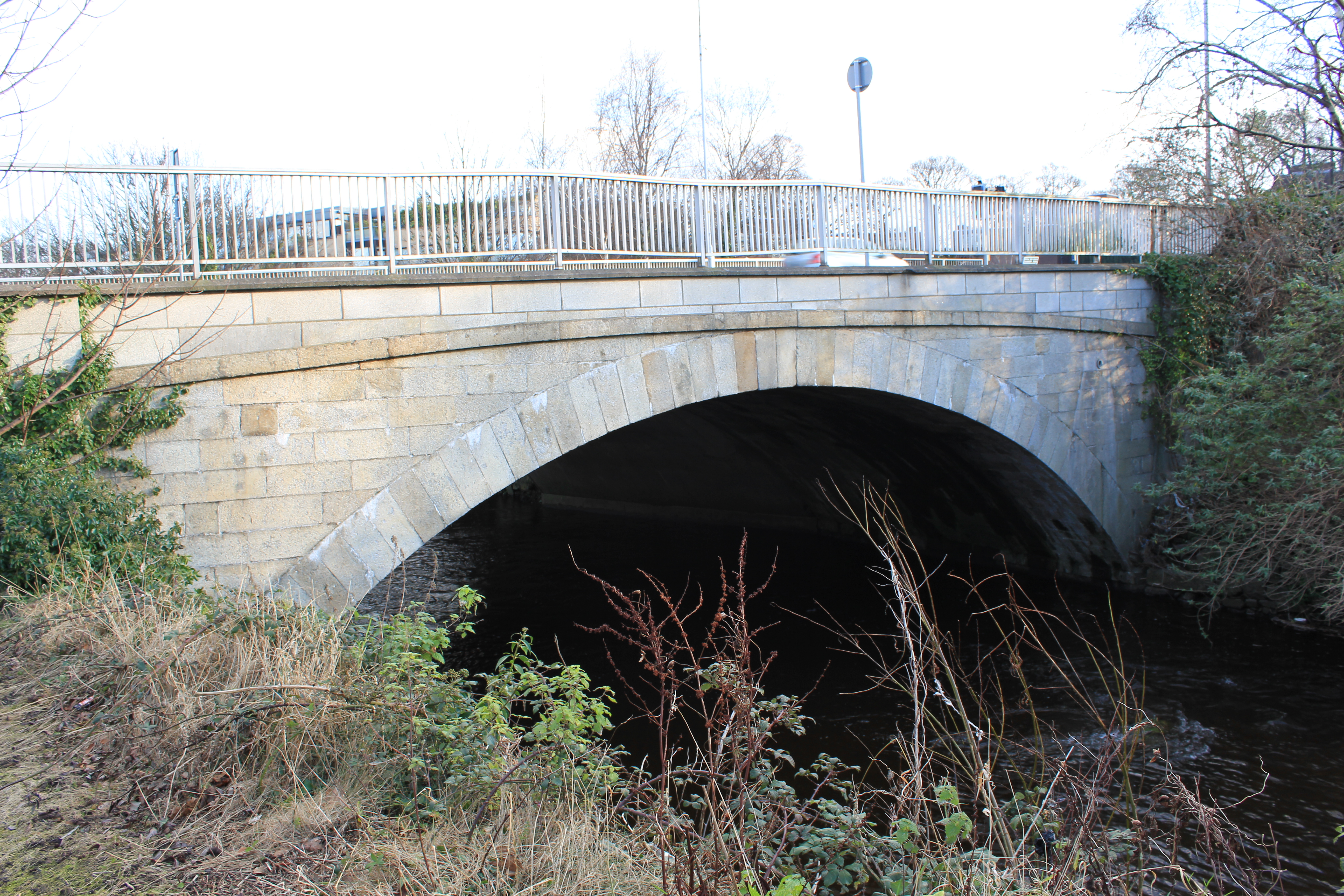 Milltown Bridge, Dublin, crossing the River Dodder.